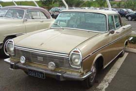 Simca Esplanada, manufactured in Brazil from 1966 to 1969, photo by Mario Alberto Bauér.